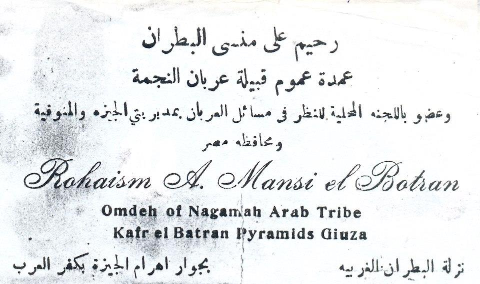 Roheim Pasha Ali Mansy al-Batran Personal card